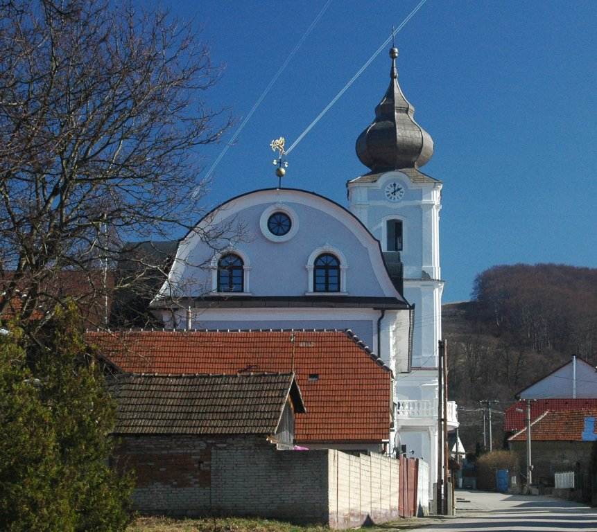 Vrbovce, Myjava District, Slovakia.